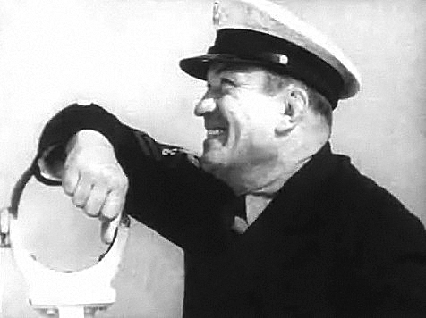 Cropped screenshot of Victor McLaglen from the trailer for the film Sea Devils (1937).